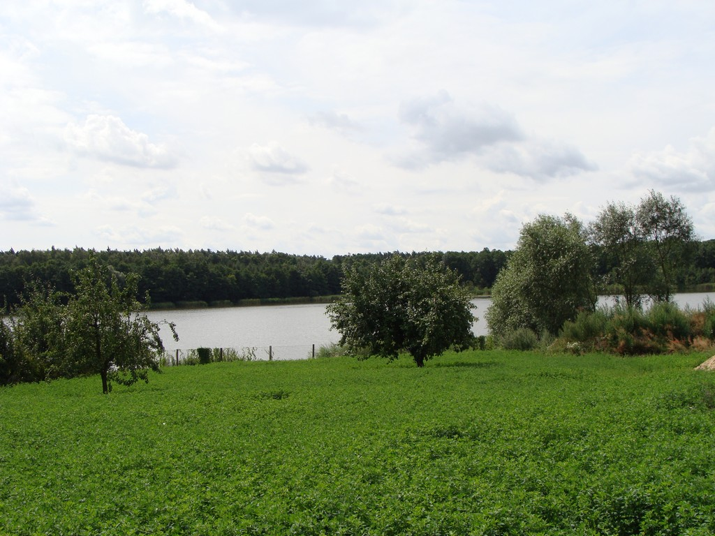 Szymanowo, Lake.